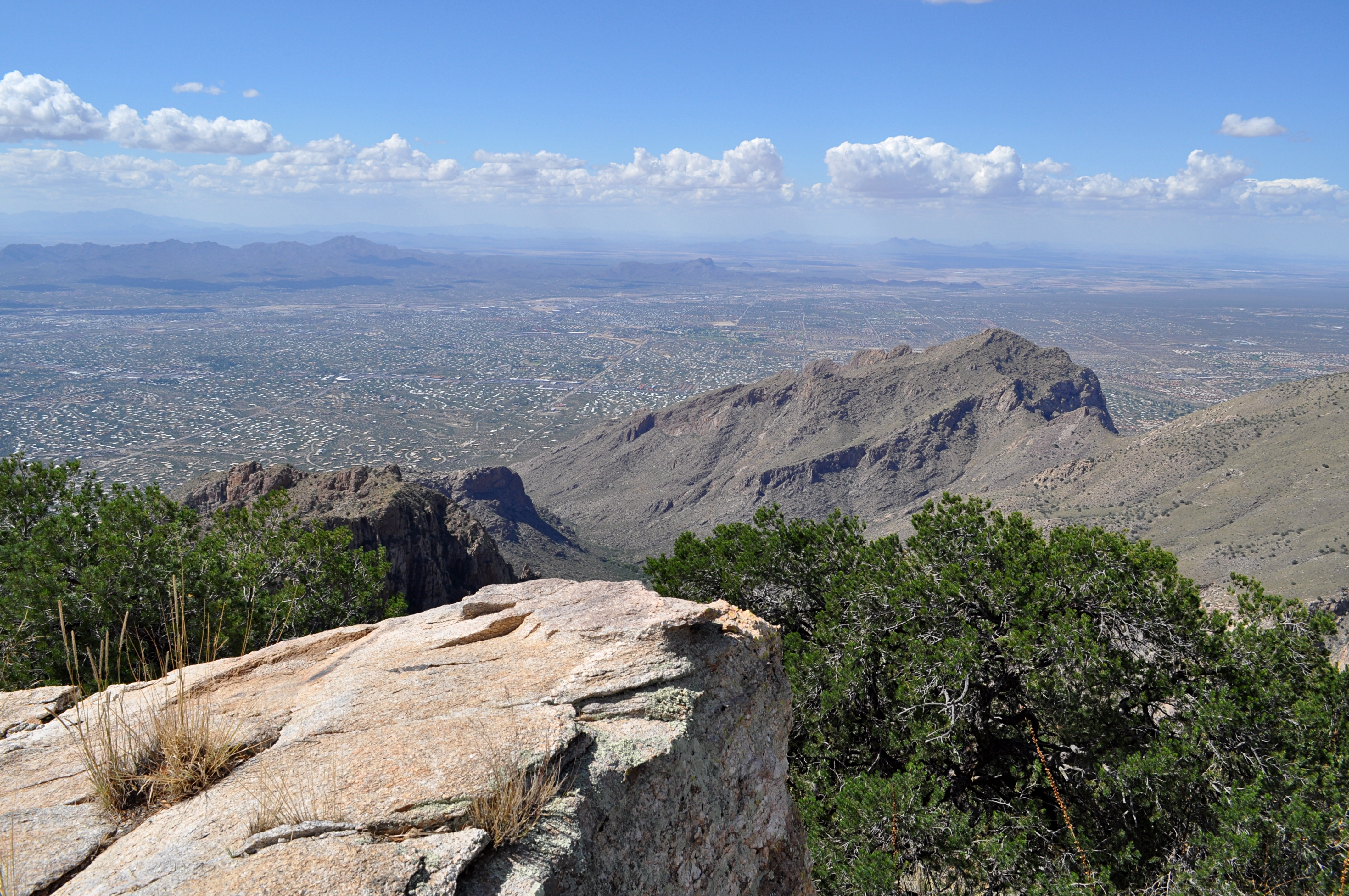 The view toward the northwestern part of the Tucson metro area from the western summit of Prominent Point.(View to Tucson Mountains-(Santa Cruz River (Arizona), adjacent at east), across Oro Valley-(northwest, Tucson Valley), Avra Valley beyond Tucson Mtns, then the Silver Bell Mtns on horizona.) The distance across Oro Valley to Tucson Mtns is about 10-mi wide. North of Avra Valley-(north end) and the Santa Cruz River drainage, merge to northwest (the Santa Cruz Flats). Pinus discolor in foreground.